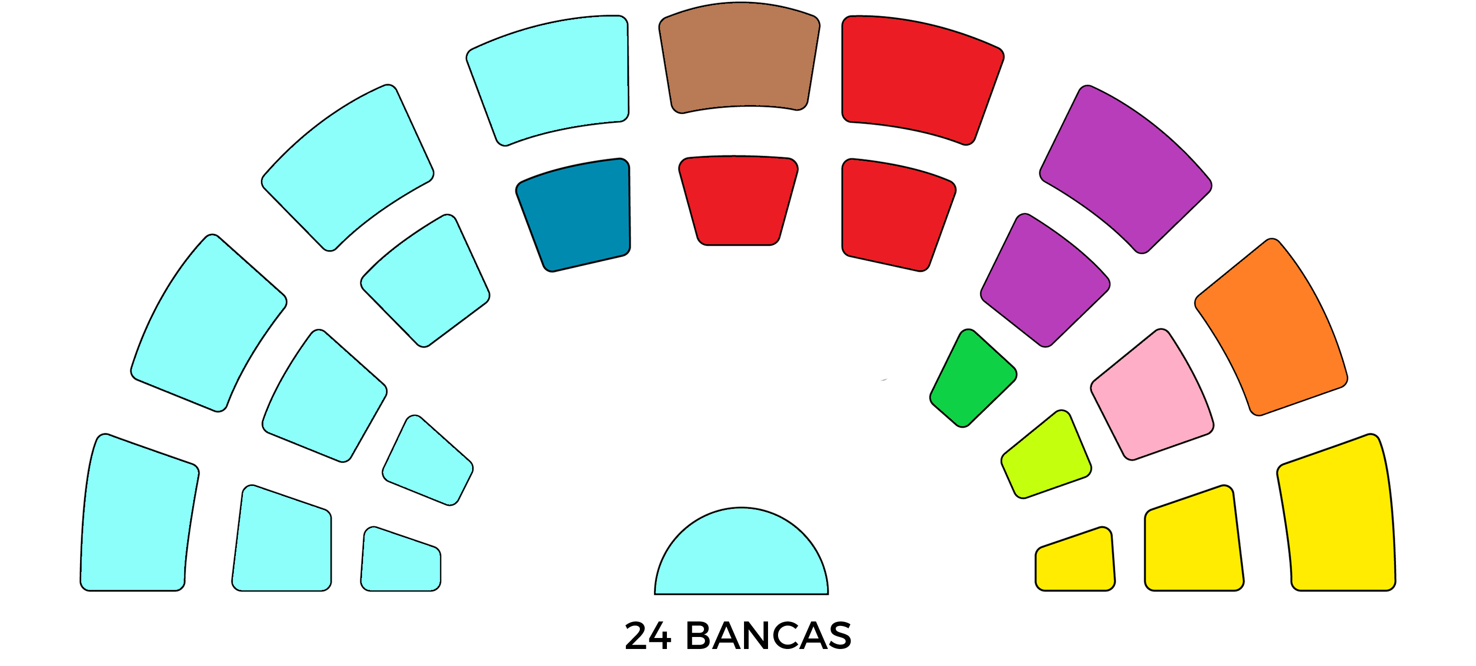 Deliberative Council of the municipality of Avellaneda